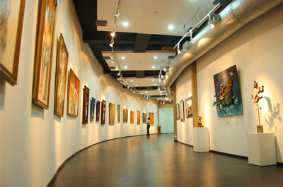 The Art Gallery